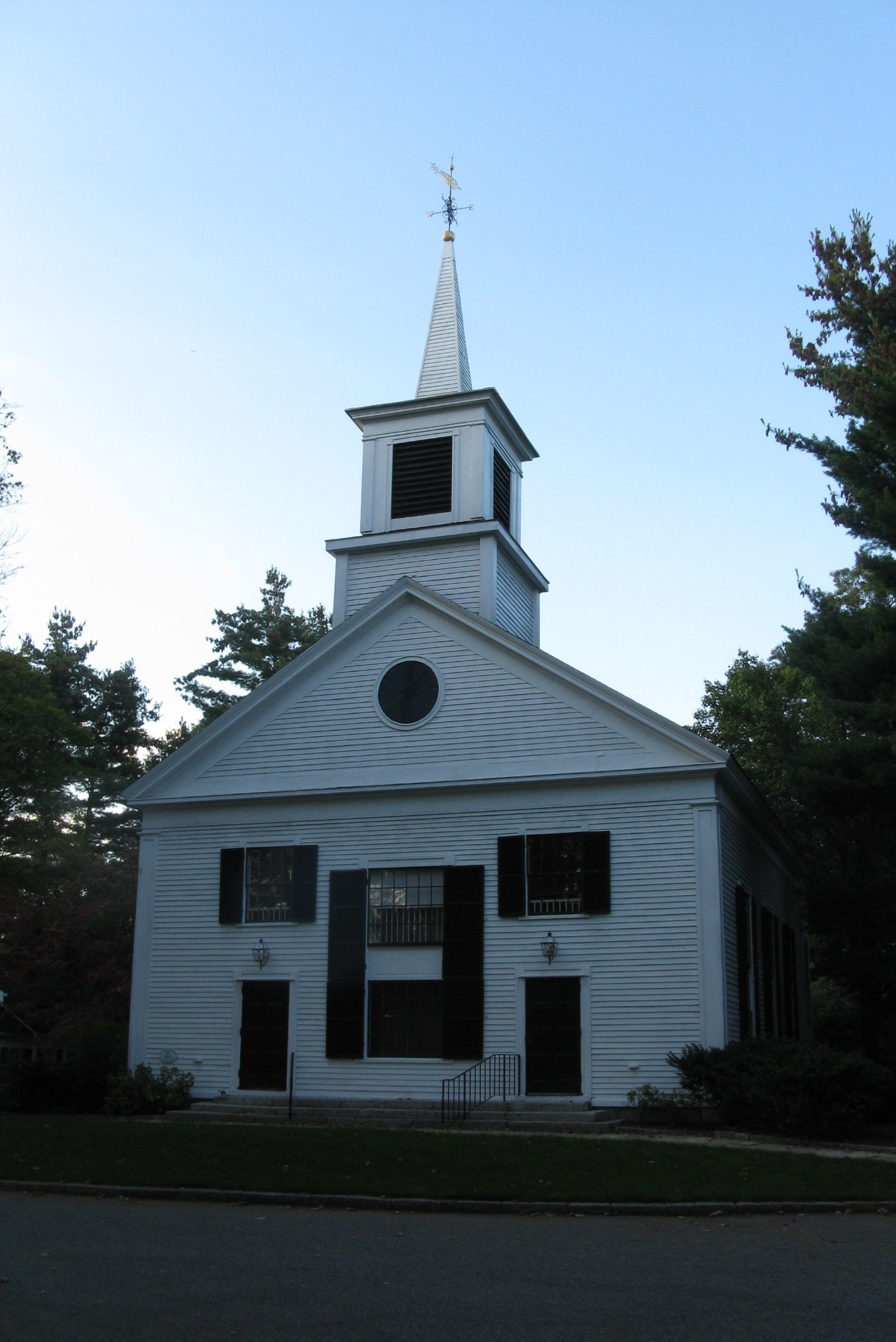 The Dover Church, Dover Massachusetts